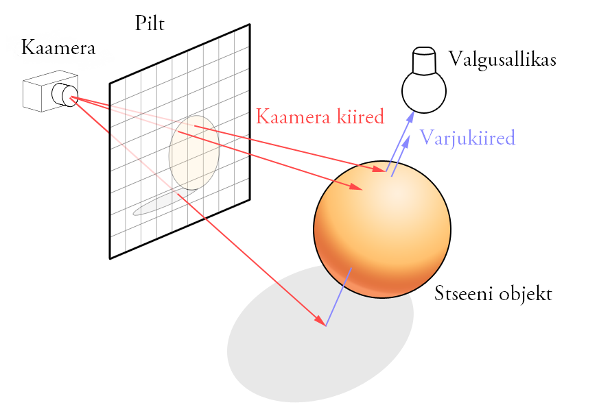 Showing the basic working principles of ray tracing.